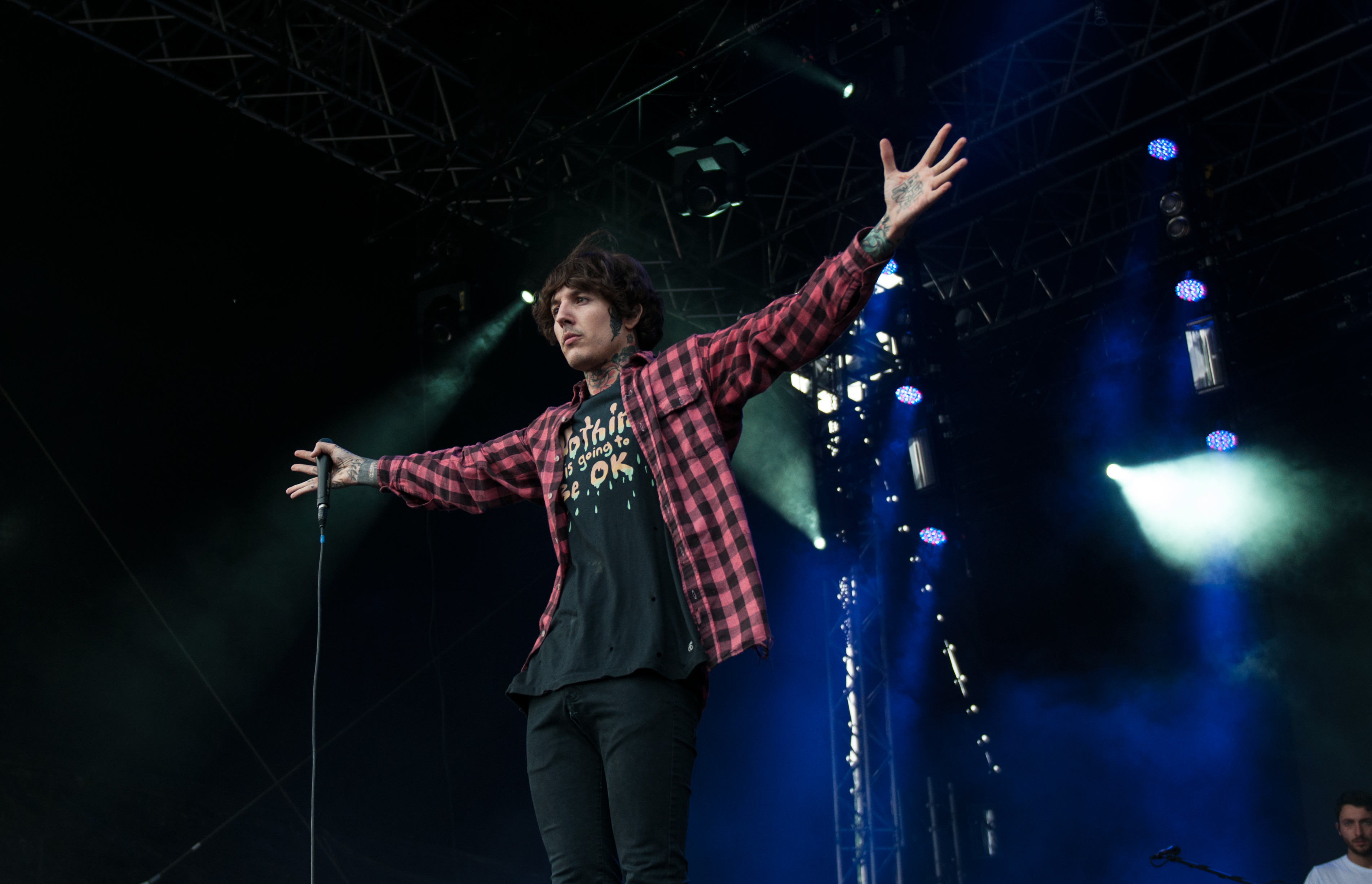 Bring Me the Horizon at Vainstream Rockfest 2014